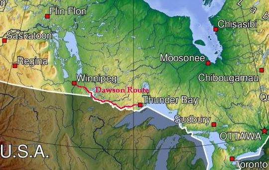 Dawson Route, historic road/trail in Manitoba and Ontario, Canada.